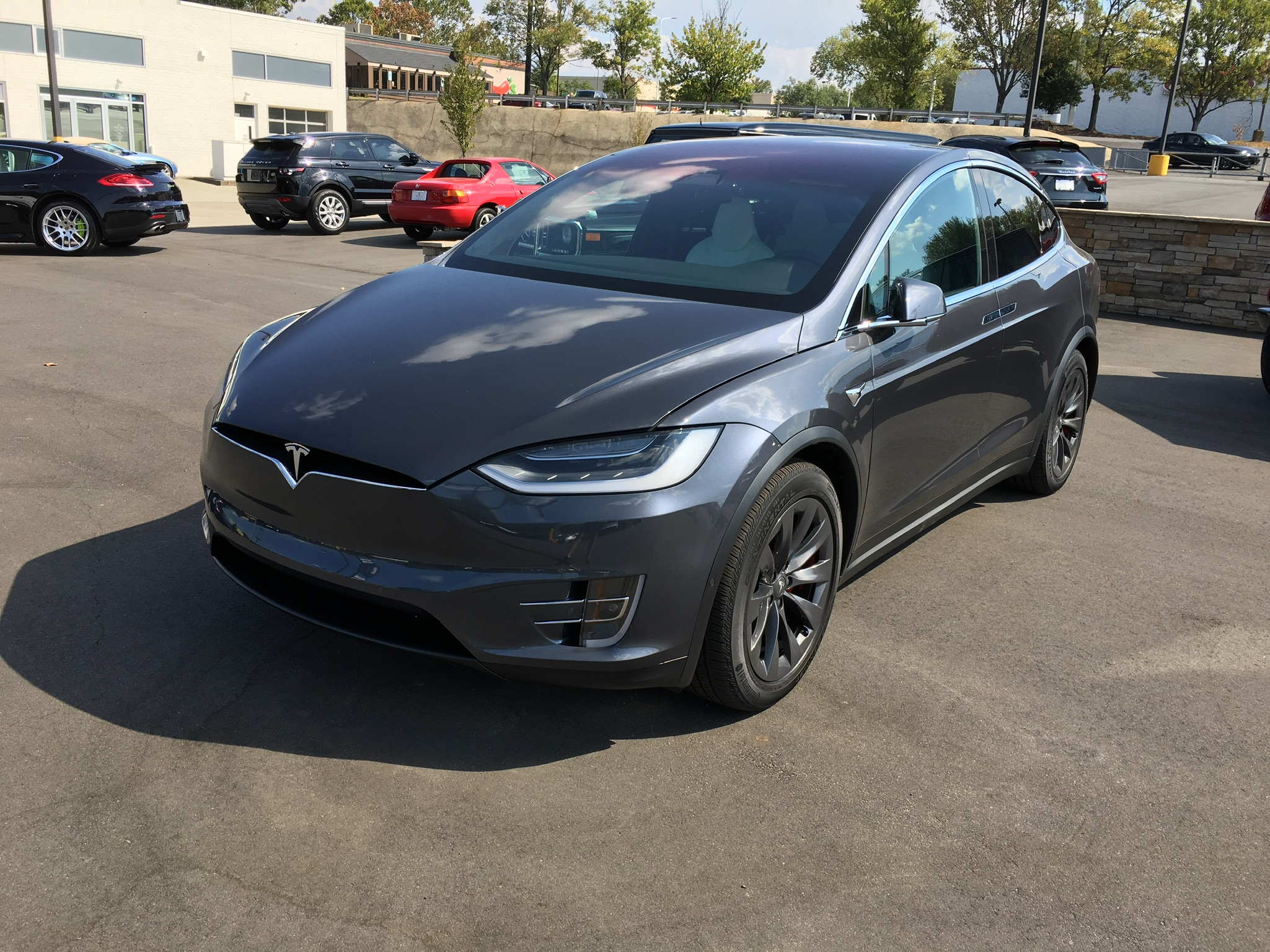 a gray Tesla Model X at the Maserati Alfa Romeo dealer in Charlotte, NC